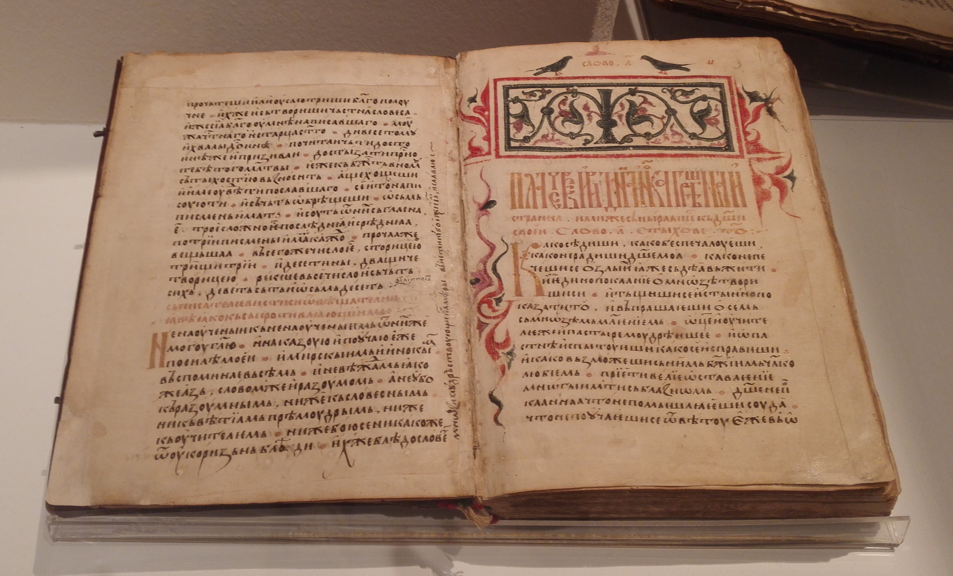 Dioptra, manuscript from the Patriarchate of Peć 1440s. Belgrade, Museum of the Serbian Ortodox Church